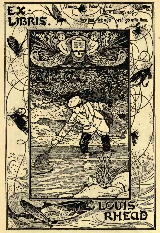 Book Plate of Louis Rhead from A Collection of Bookplate Designs by Louis Rhead, 1907